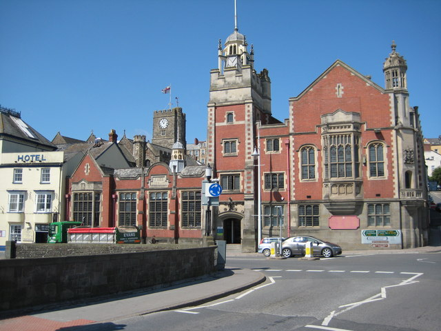 Bideford Town Hall Bideford Town Hall is located at the junction of New Road and The Quay at the western end of Bideford Long Bridge.